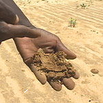 "Drought has turned farmland into useless soil and sand" A farmer examines the soil in drought stricken Niger during the 2005 famine. Still from a Voice of America TV report